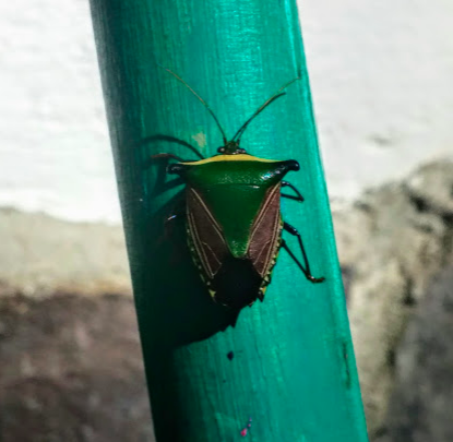 Edessa pictiventris, seen near Monteverde, Costa Rica